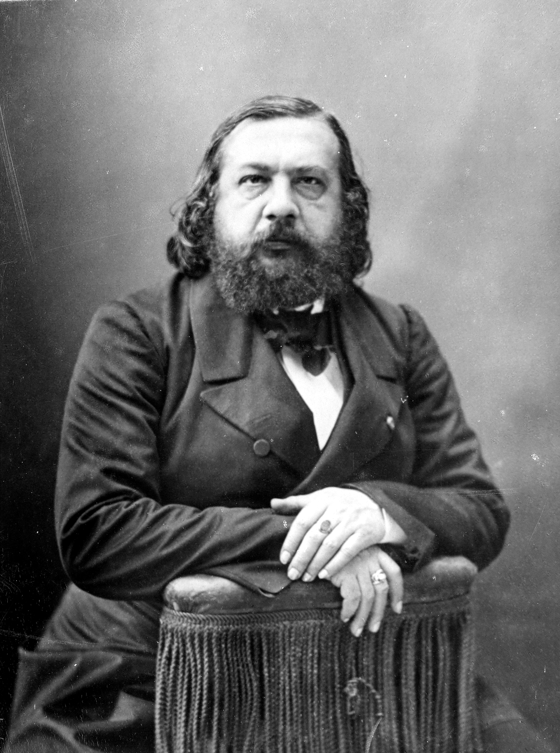 Théophile Gautier by Nadar